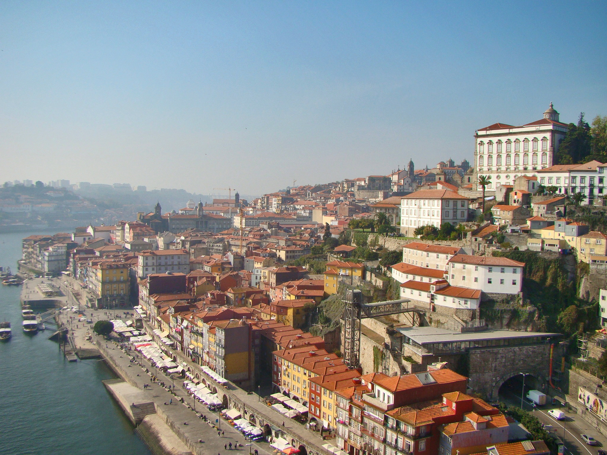 Porto View